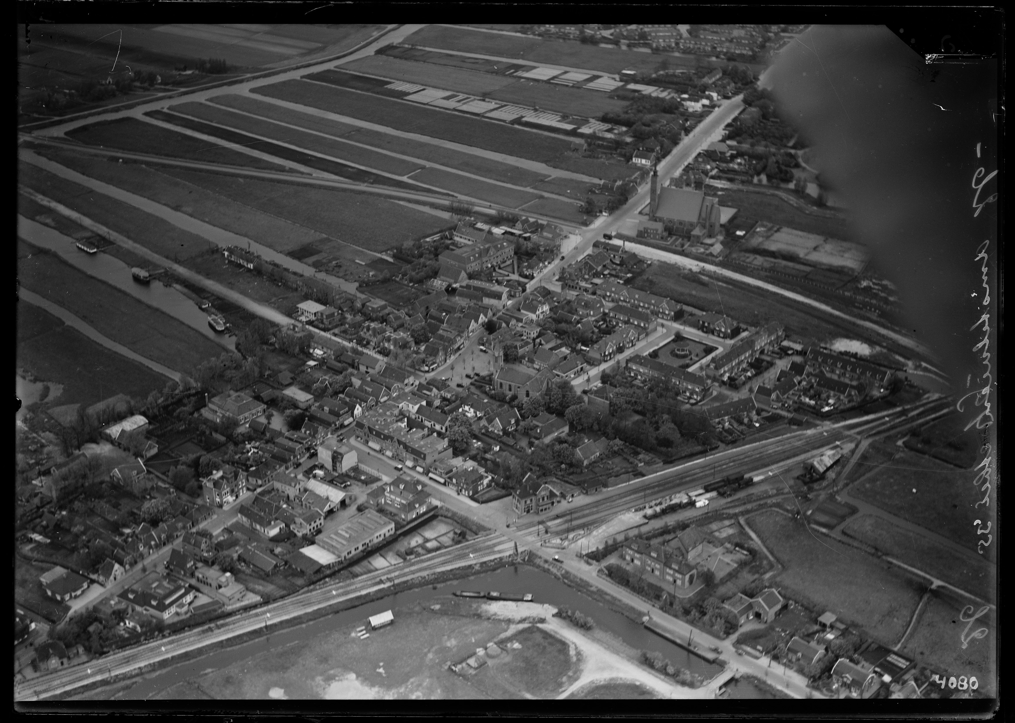 Aerial photograph of Amstelveen, The Netherlands